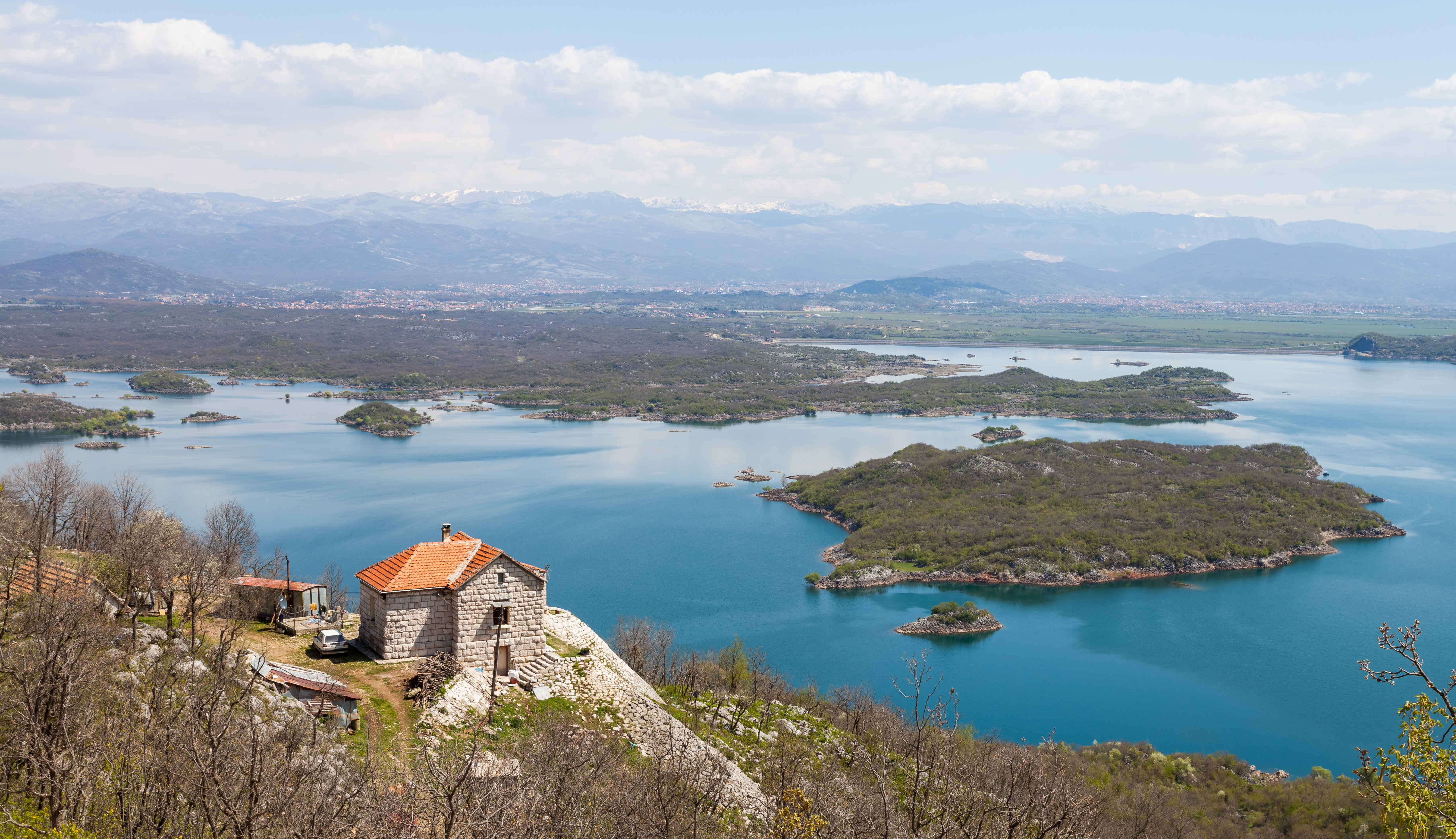 Slansko Lake, Montenegro